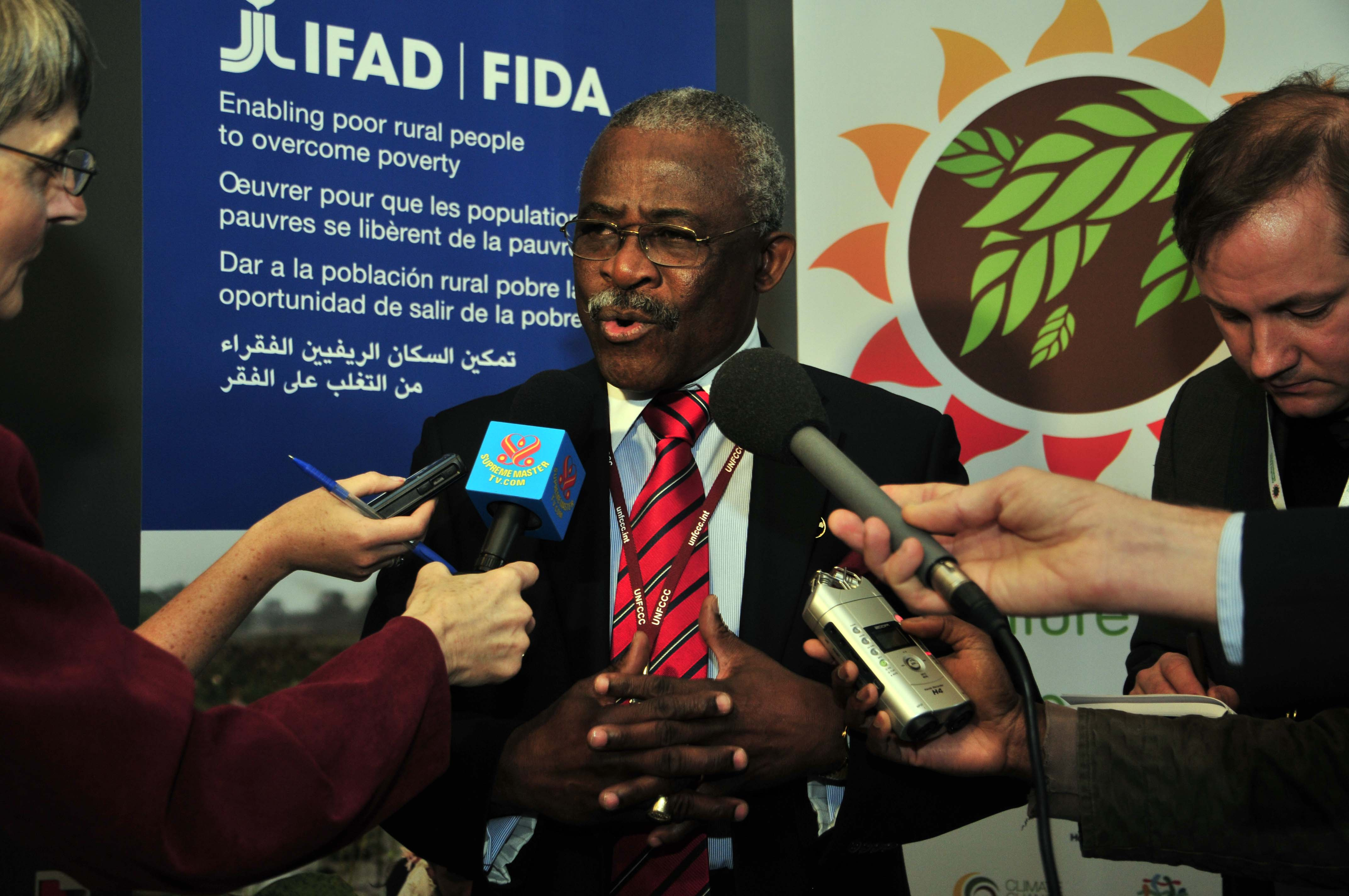 Kanayo F. Nwanze, president of IFAD, speaks to the media after the opening session of the Agriculture and Rural Development Day - a side event of the COP15 United Nations climate change conference in Copenhagen, Denmark.